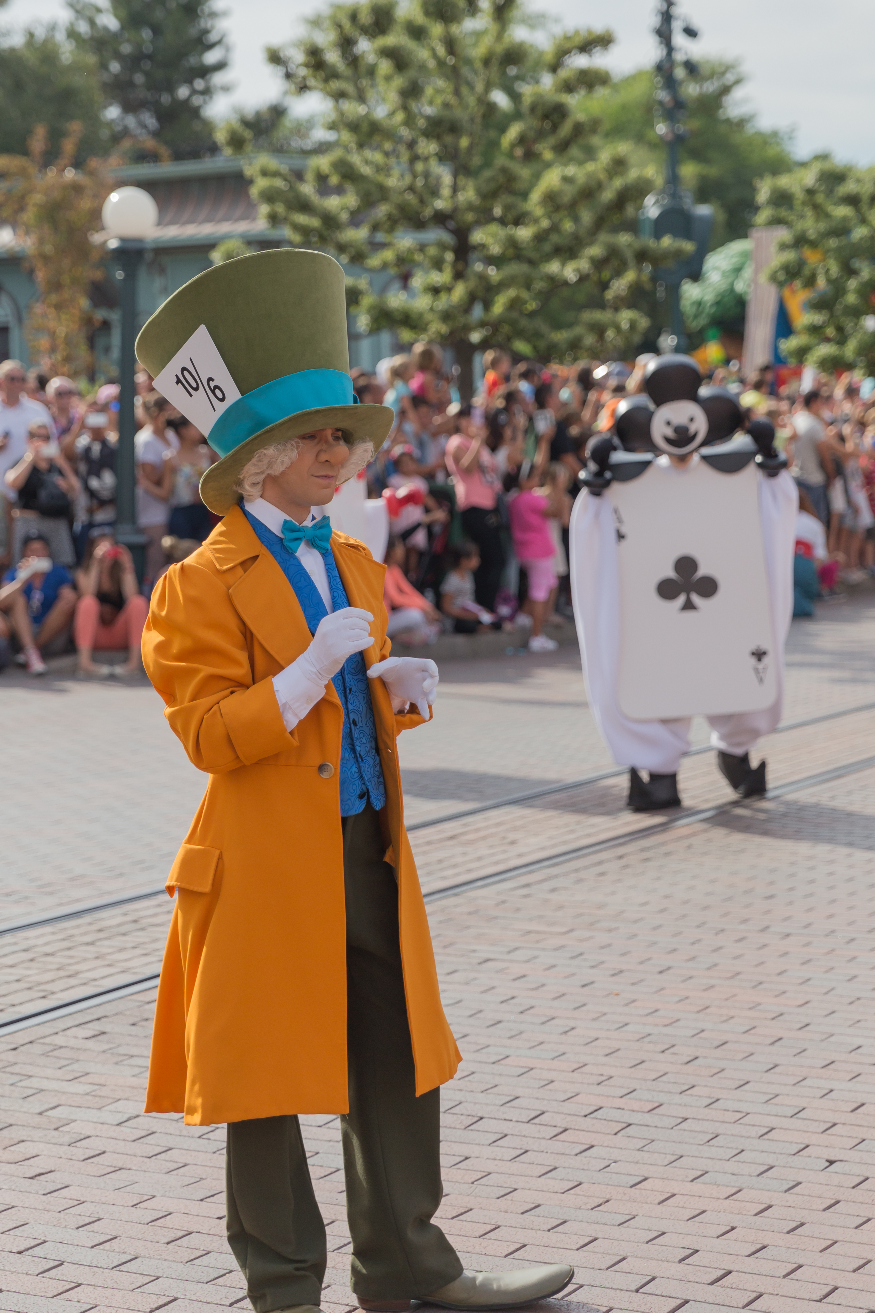 The Mad Hatter of Alice in Wonderland at the Disney Magic On Parade in Disneyland Paris.